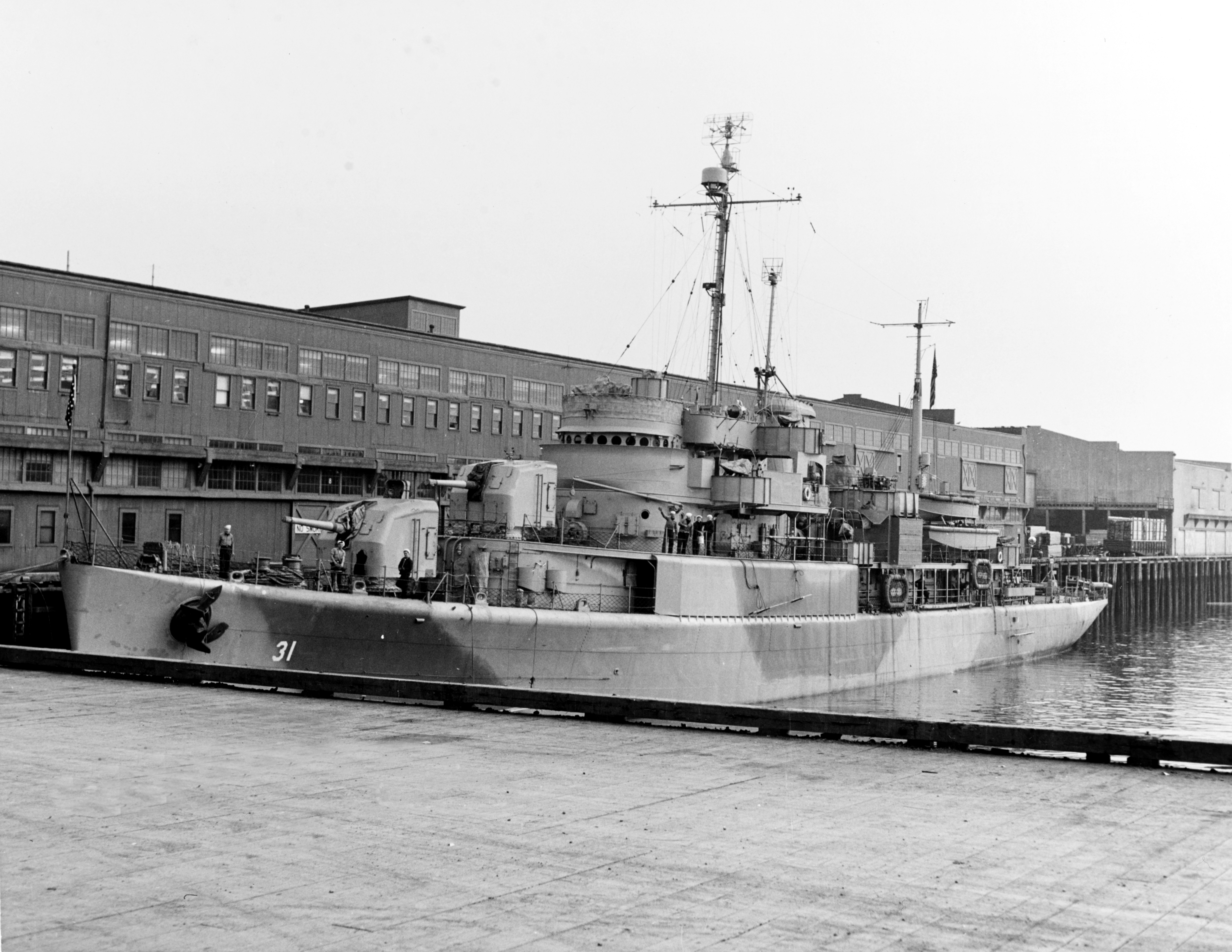 The U.S. Navy seaplane tender USS Unimak (AVP-31) at Seattle, Washington (USA), on 31 January 1944. She is painted in Camouflage Measure 32, Design 5D.